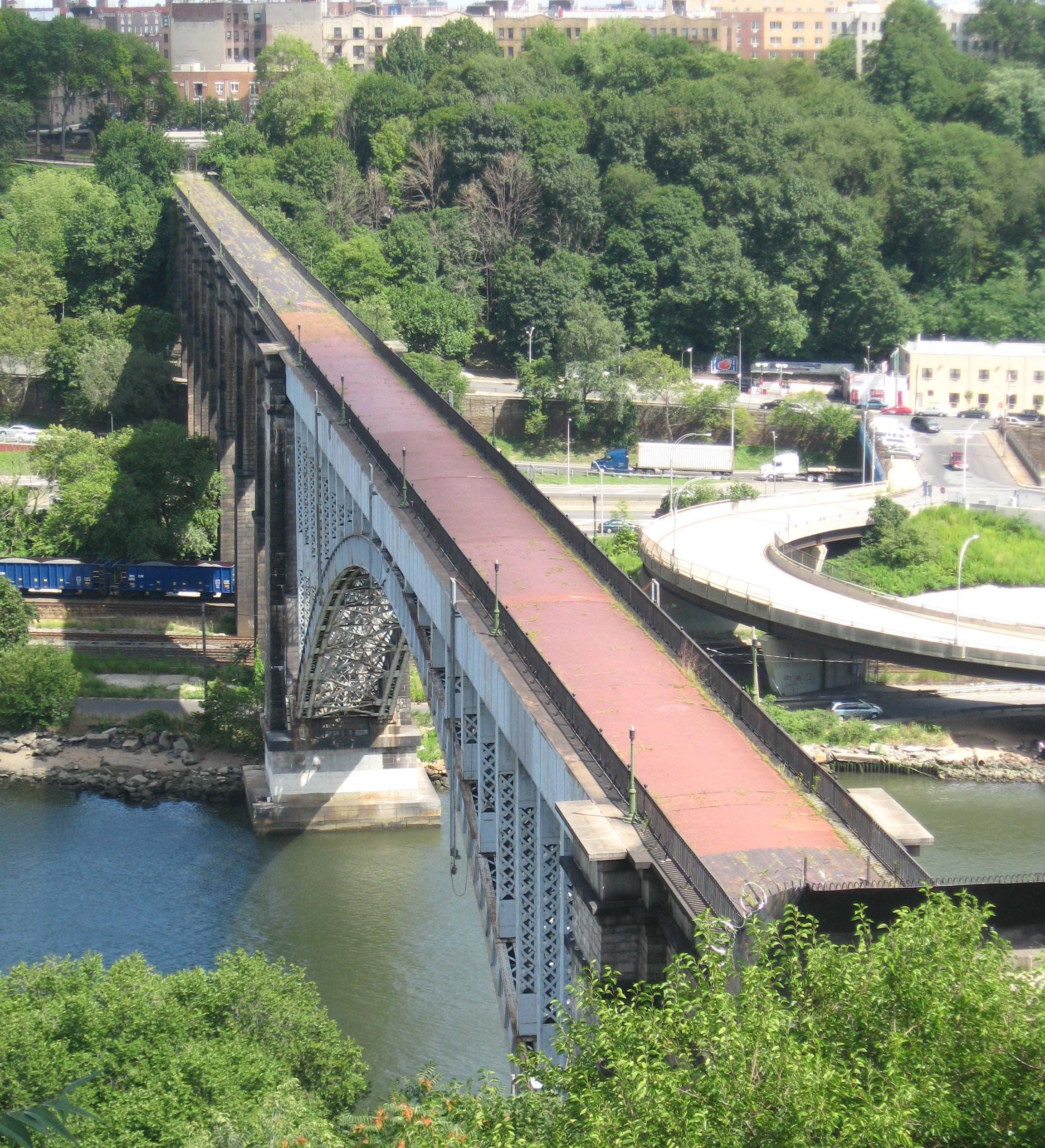 Looking east at High Bridge on a sunny midday from Highbridge Park. Exterior Street viaduct crosses tracks at right.